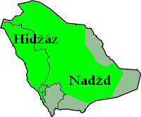 Description: Map of Saudi Arabia showing the provinces. * Source: Morwen on then English Wikipedia :It was transwikied in 2005 by user:grenavitar along with other maps and modifications from Category:Maps of provinces of Saudi Arabia